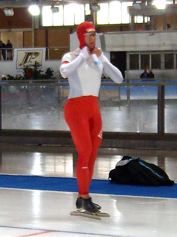 Jan Friesinger (GER) at the German Single Distanz Championship 2009 in Berlin, Germany